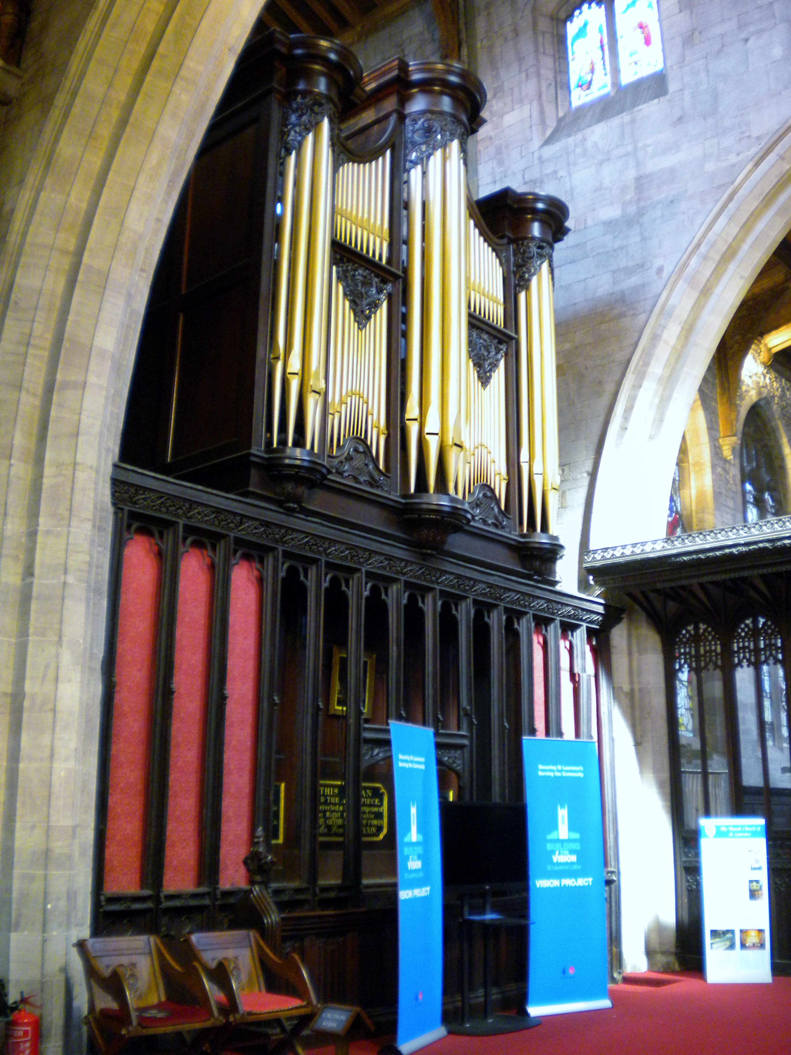 The organ in the north transcept at St Laurence, Ludlow, Shropshire, England.